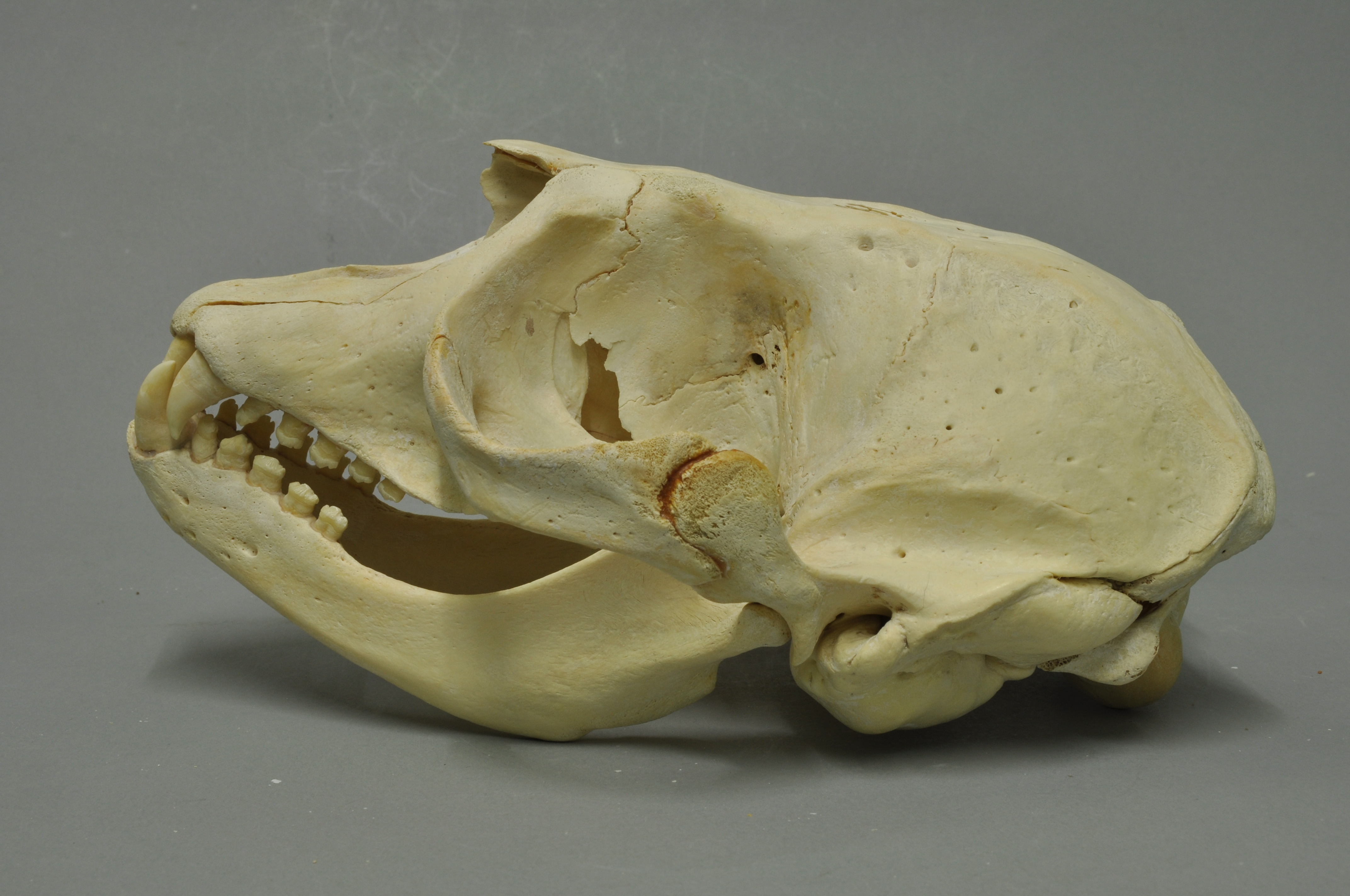 Hooded seal Cystophora cristata, skull, Coll. Museum Wiesbaden